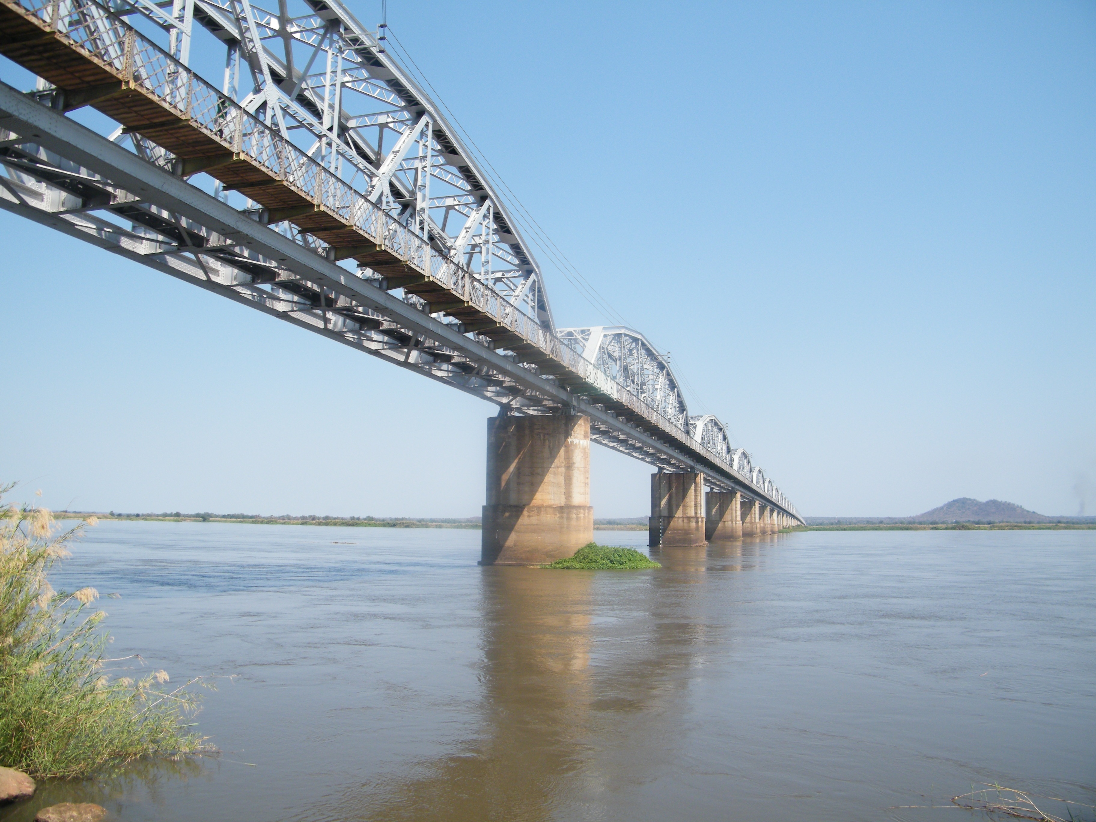 The longest rail bridge in Africa joining the two halves of Mozambique This is an image with the theme "Africa on the Move or Transport" from: Mozambique